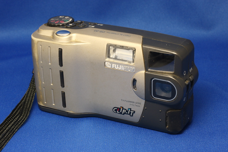 Fujifilm digital camera CLIP-IT DS-20 (released in 1997)